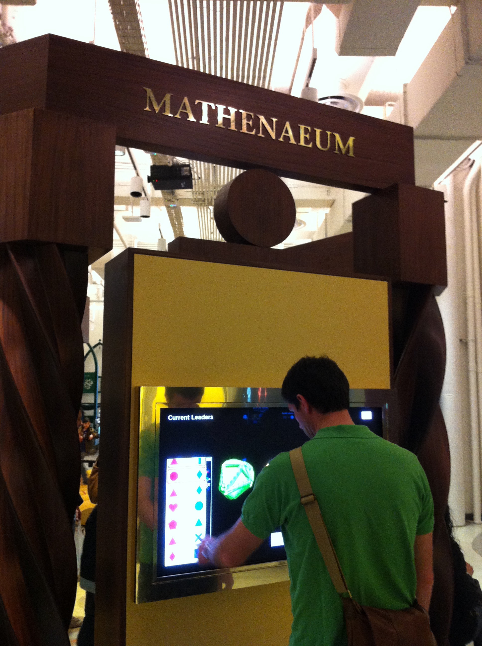 museum of mathematics - momath